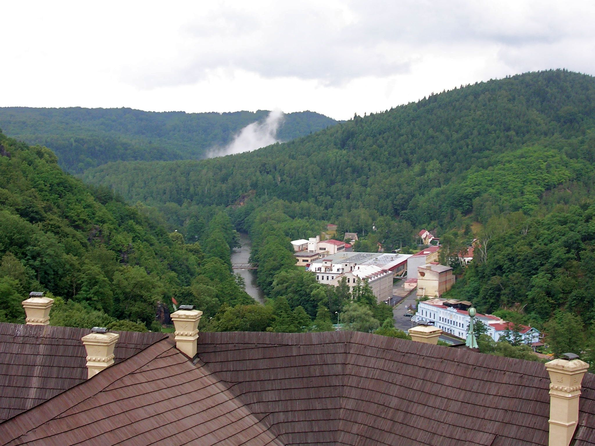 Loket, Sokolov District, Karlovy Vary Region, the Czech Republic.